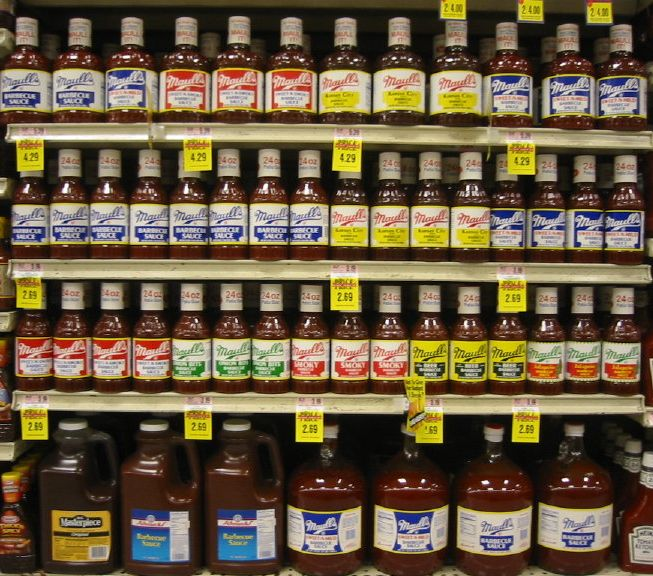 Large shelf section devoted to Maull's BBQ sauce at Schnucks in St. Louis, Missouri.